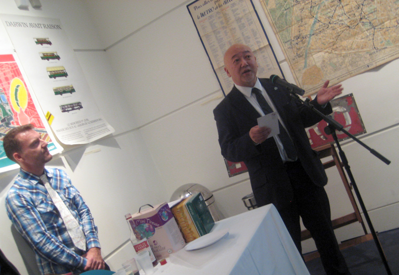 Paris Metro Style Book Launch. Mark Ovenden on the left. Yo Kaminagai on the right.